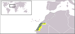 Western Sahara with free saharaui zone marked yellow